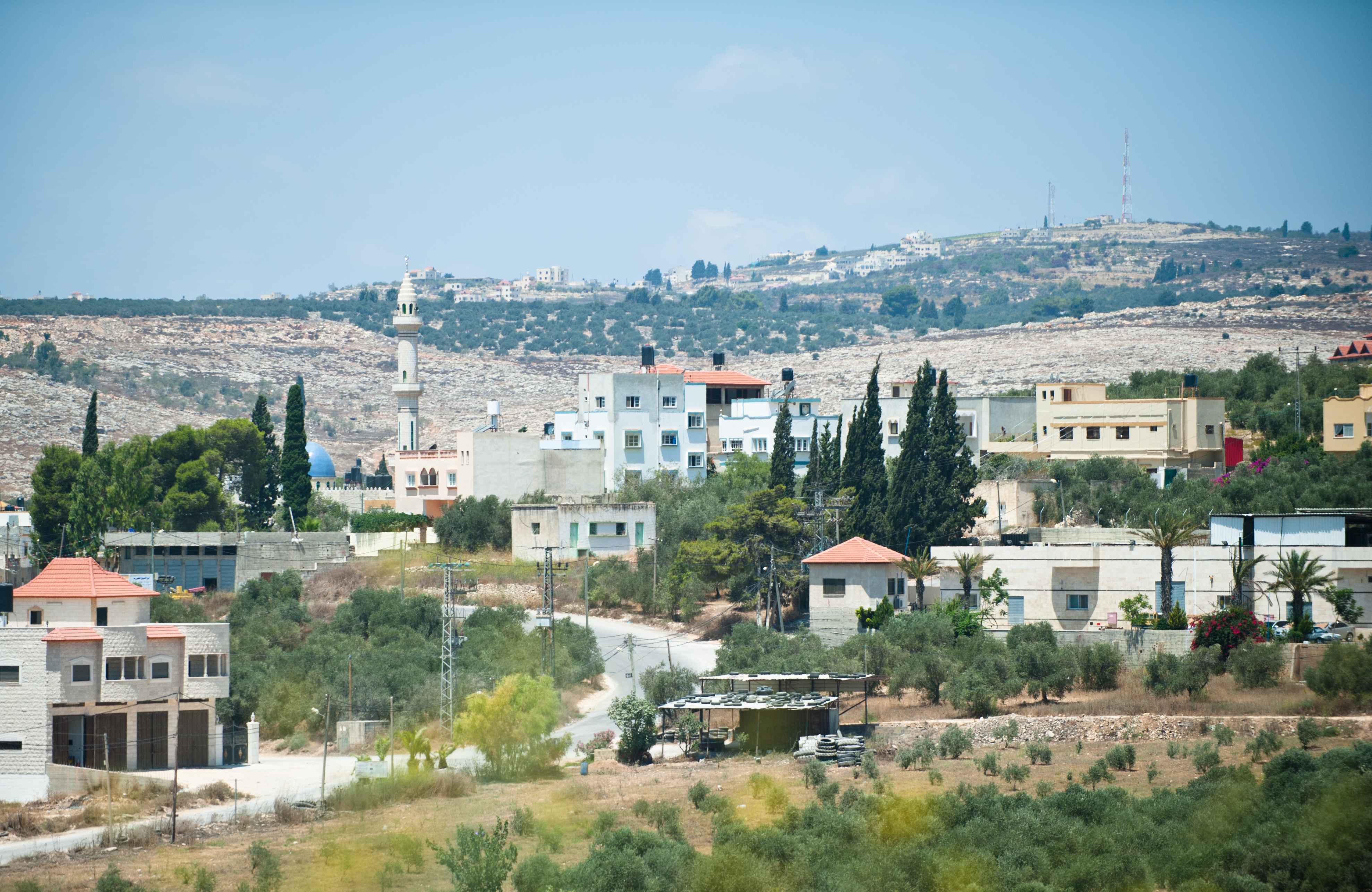 On the road from Jenin to Nablus, West Bank, Palestine